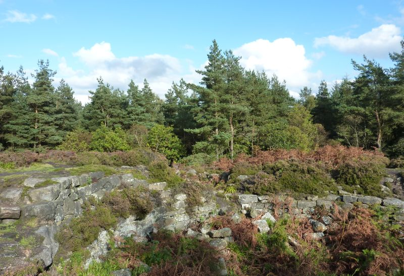 Tappoch Broch, Torwood, Stirlingshire, Scotland